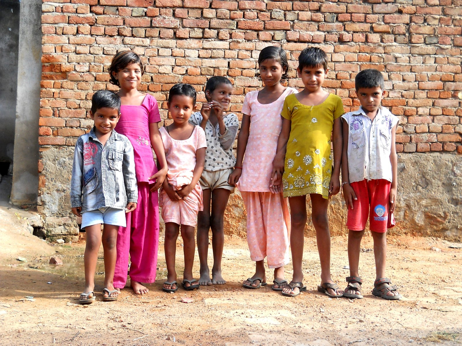 Children in Gurgaon, Haryana, India